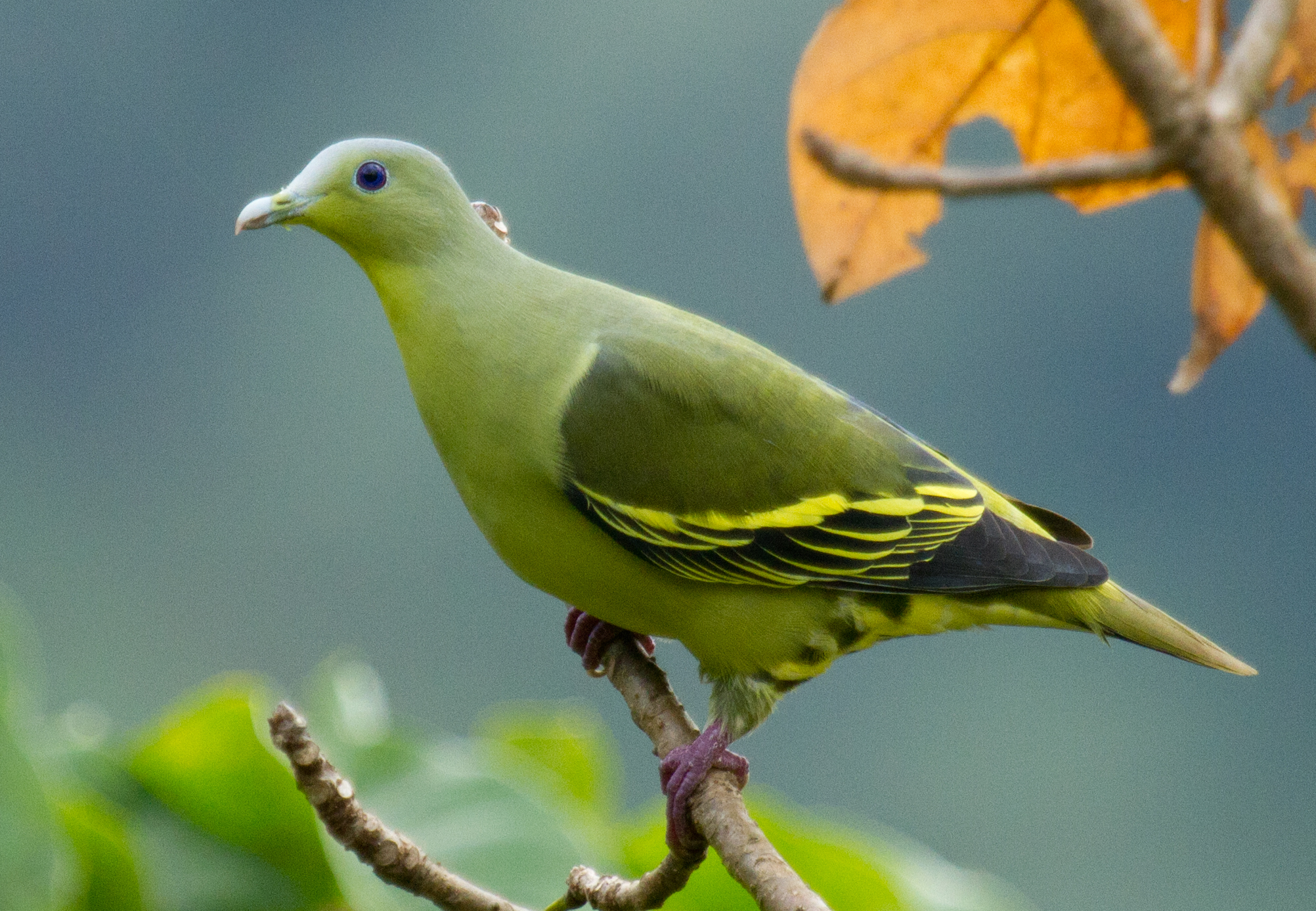 Species: Grey-fronted Green Pigeon (Treron affinis) Location: Kakkadampoyil, Kerala, India